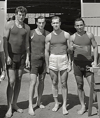 Soviet athletes Sergei Makarenko and Leonid Geishtor posing in front of their hangar with some other rowing team mates. Rome, 1960